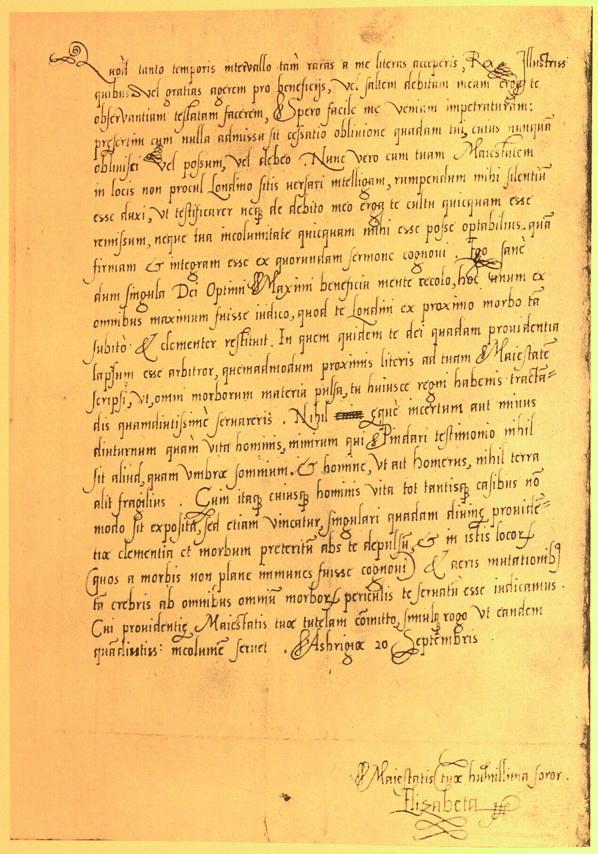 An autograph letter of Elizabeth, the future Queen Elizabeth I, to her brother, King Edward VI of England. London, British Library, Harley 6986, fol. 23r.